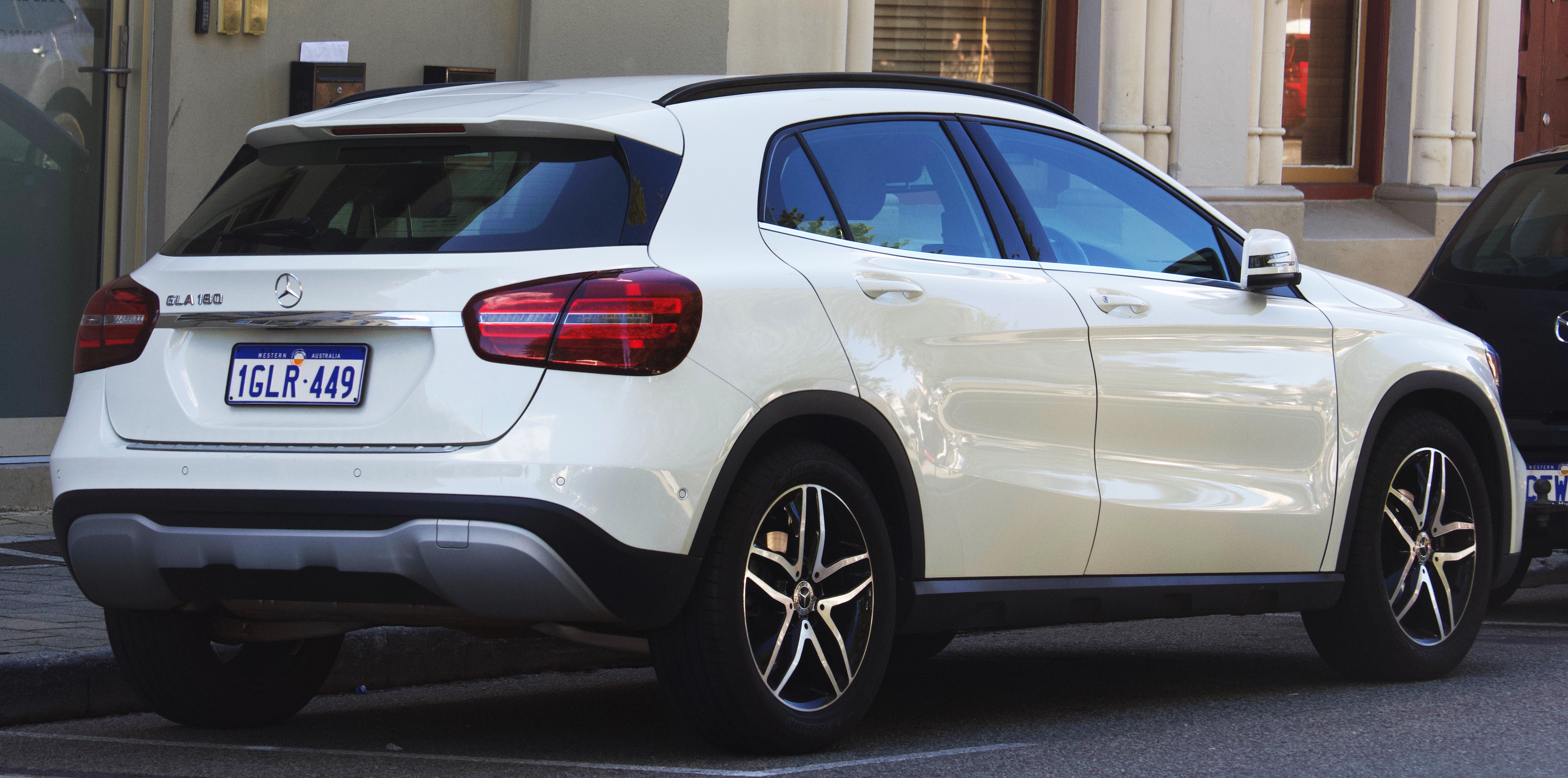 2018 Mercedes-Benz GLA 180 (X 156) wagon. Photographed in Fremantle, Western Australia, Australia.